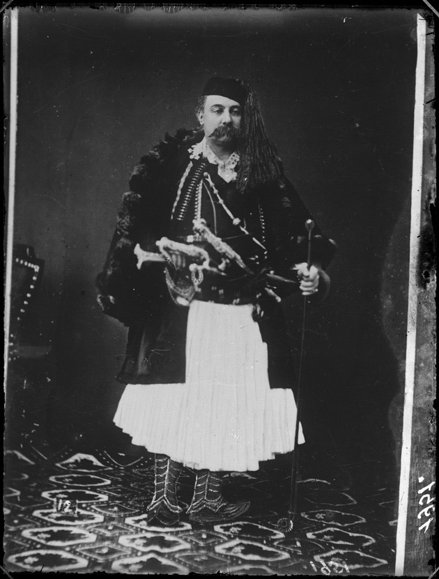 Italian consul Alessandro De Rege di Donato, who served in Shkodër from February 20, 1881, to February 18, 1886 as captured by Pietro Marubi.